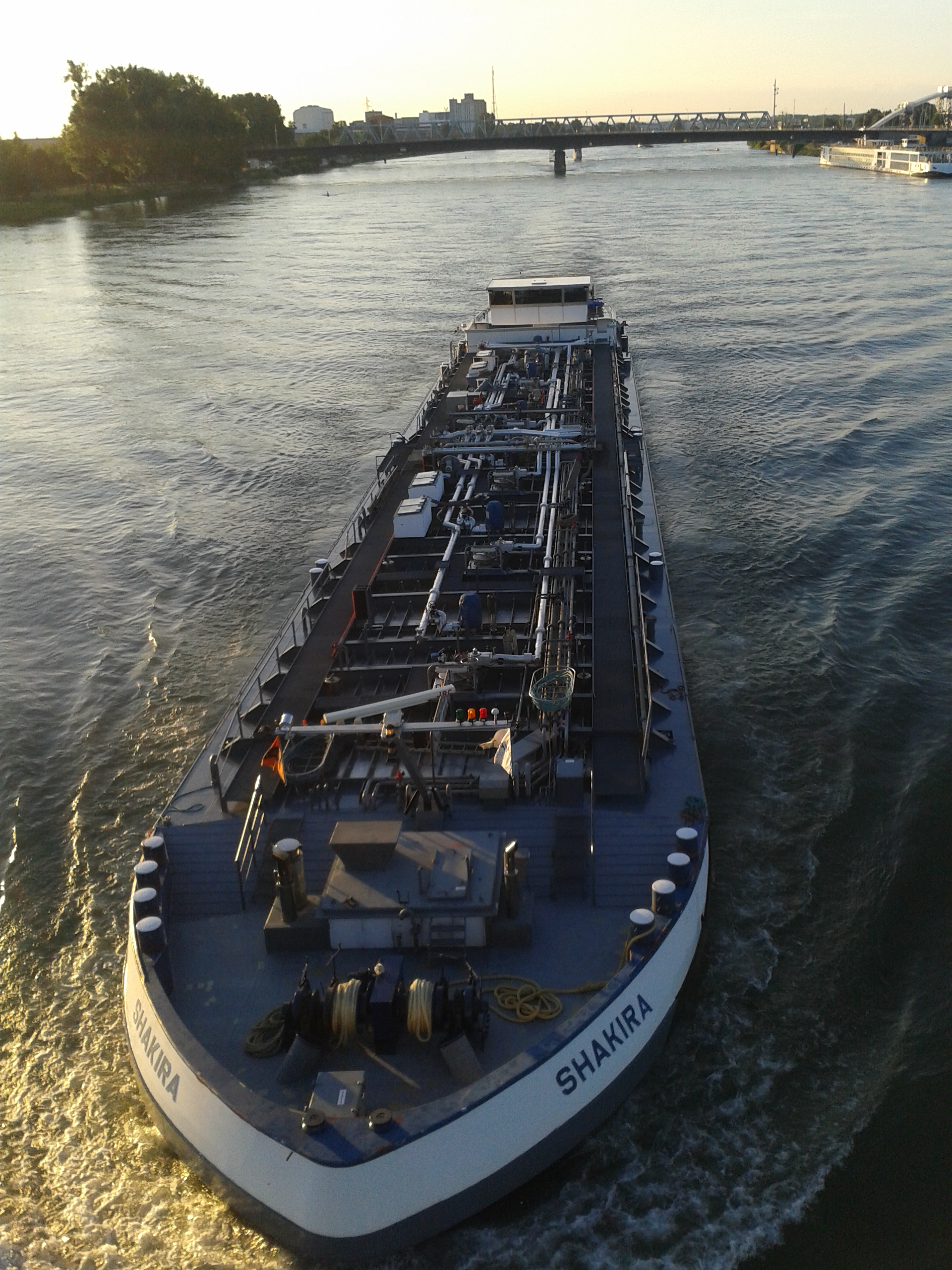 Inland tanker "Shakira" at Kehl, June 2015.